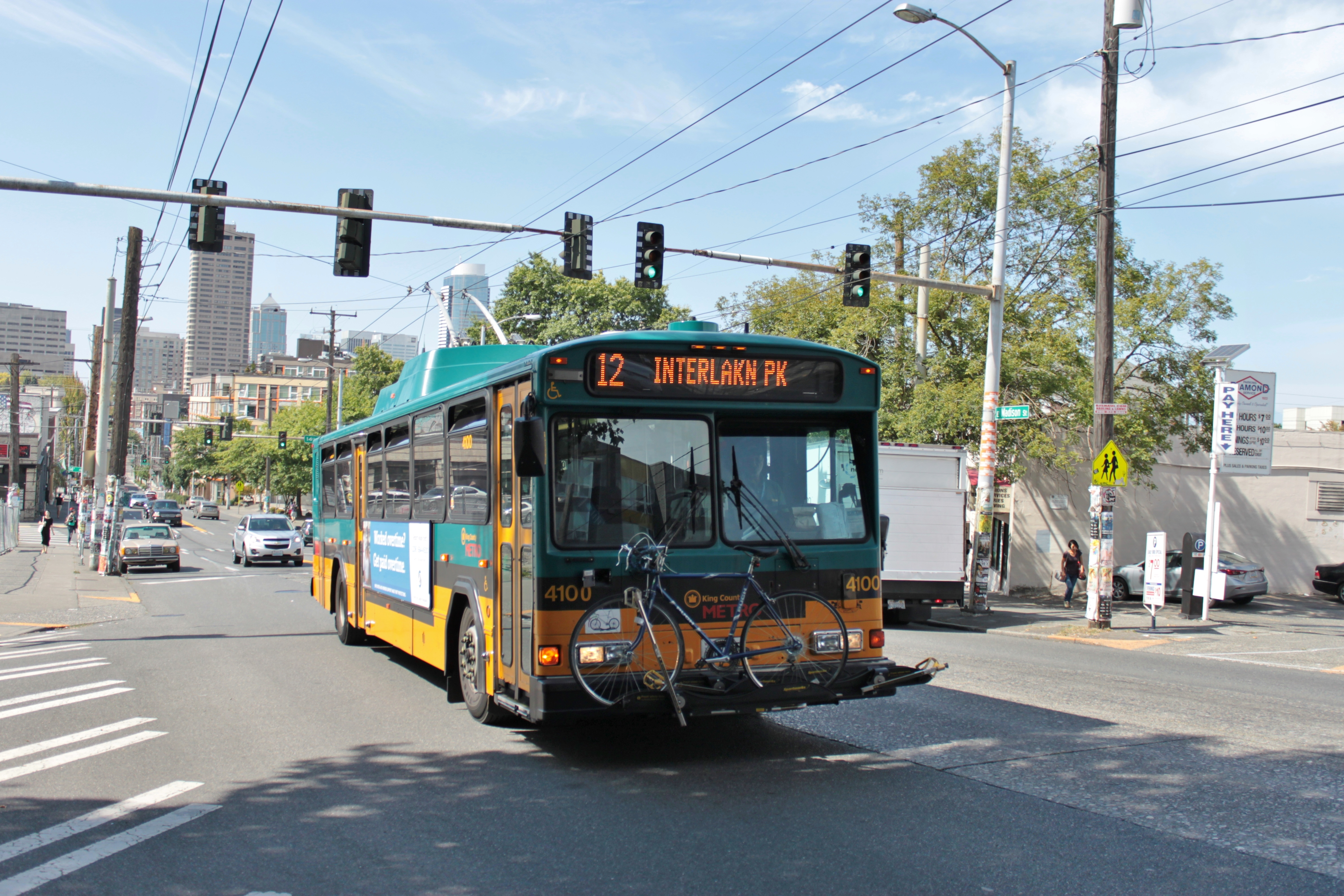 2001 Gillig Phantom trolleybus on King County Metro route 12